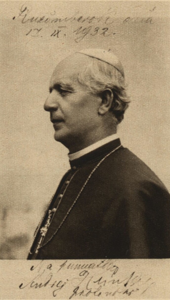 Andrej Hlinka, 1932